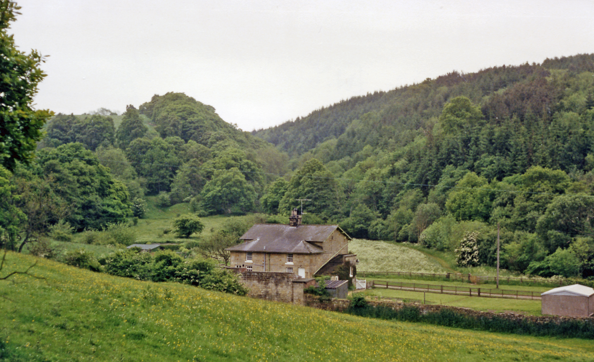 Beckhole station site/remains. View SW, to the end of the line, which had until 1865 been the upper end of a rope-worked incline section of the Grosmont - Pickering section of the 1836 Whitby & Pickering Railway - horse-worked. In 1865 the NER built a deviation from Grosmont to replace the incline, but the stub to Beckhole was retained, for goods working, also a passenger service in summer 1908-1914. ['Not many people know about' Beckhole?]